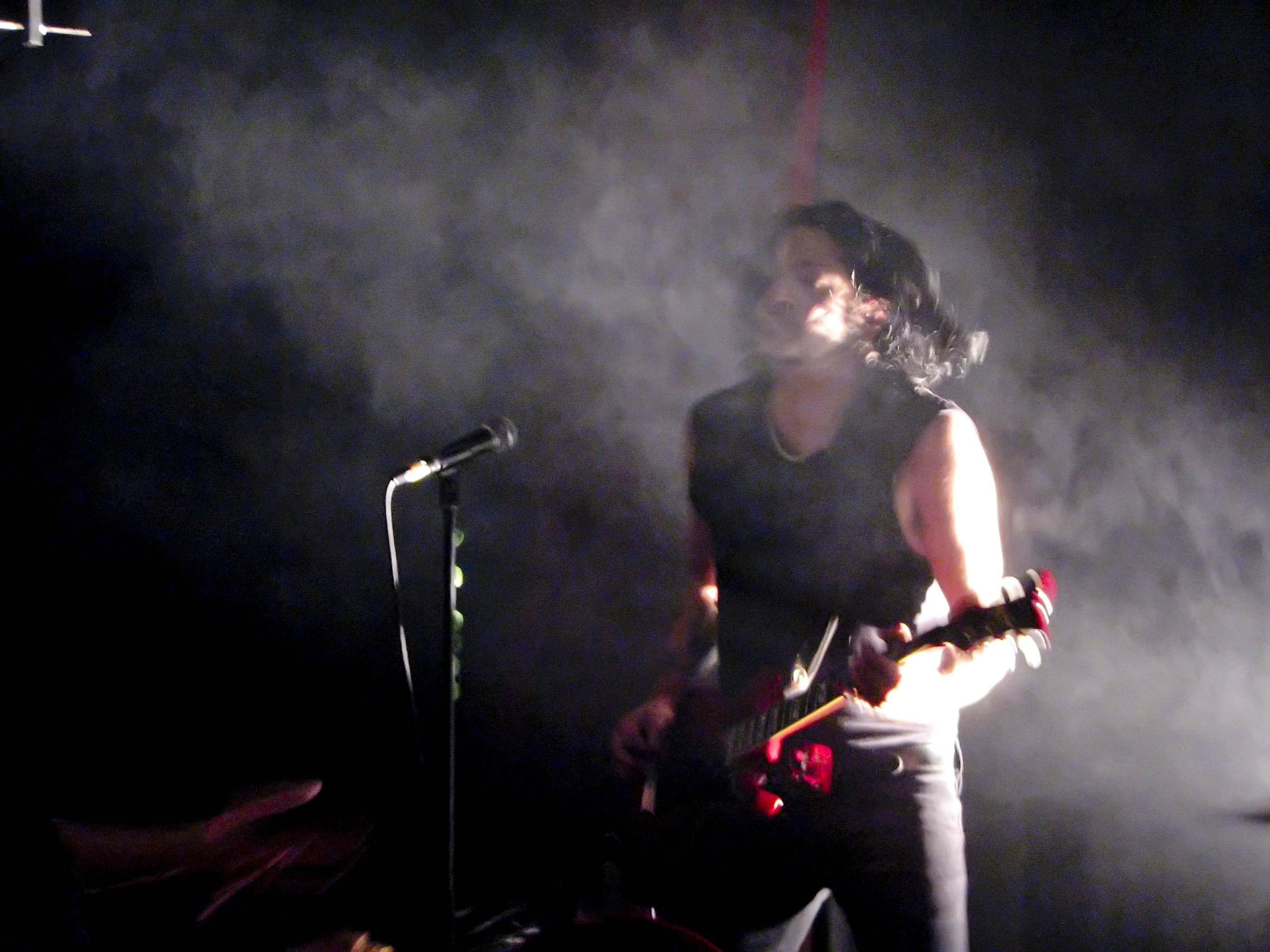 Prong's guitarrist Tommy Victor.